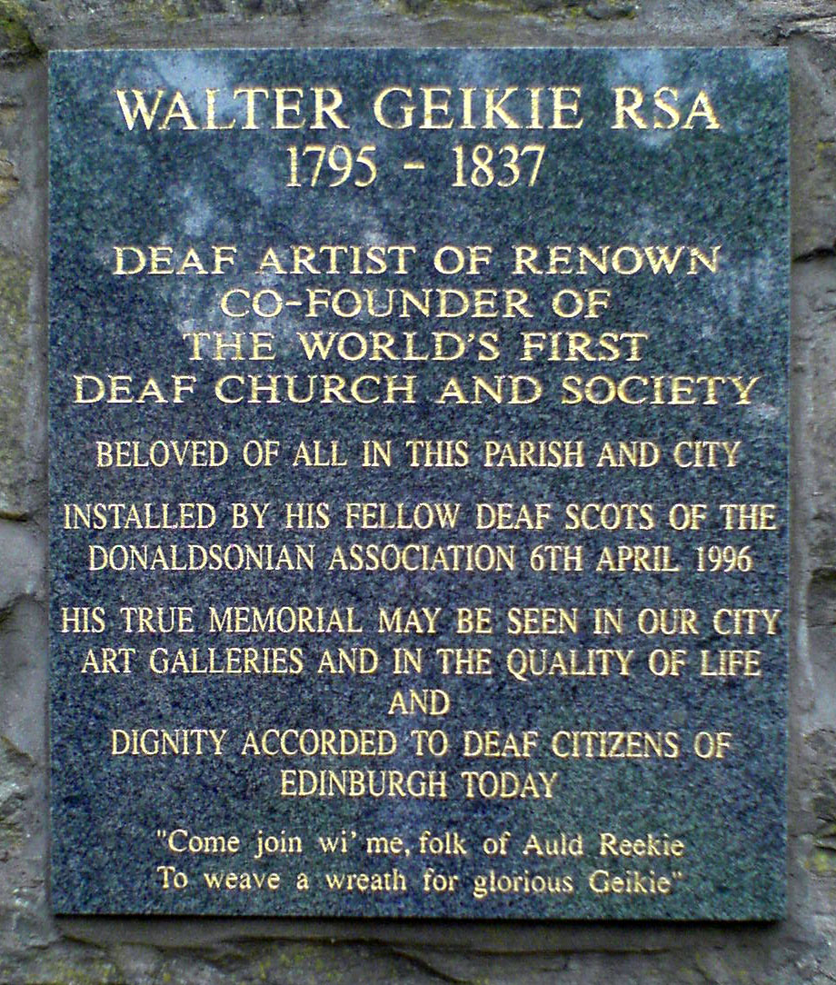 The gravestone of Walter Geikie at Greyfriars kirkyard in Edinburgh.